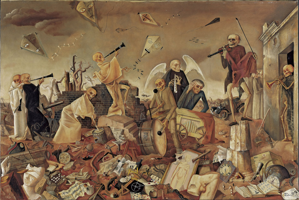 Death Triumphant (The Dance of the Skeletons), 1944, by Felix Nussbaum